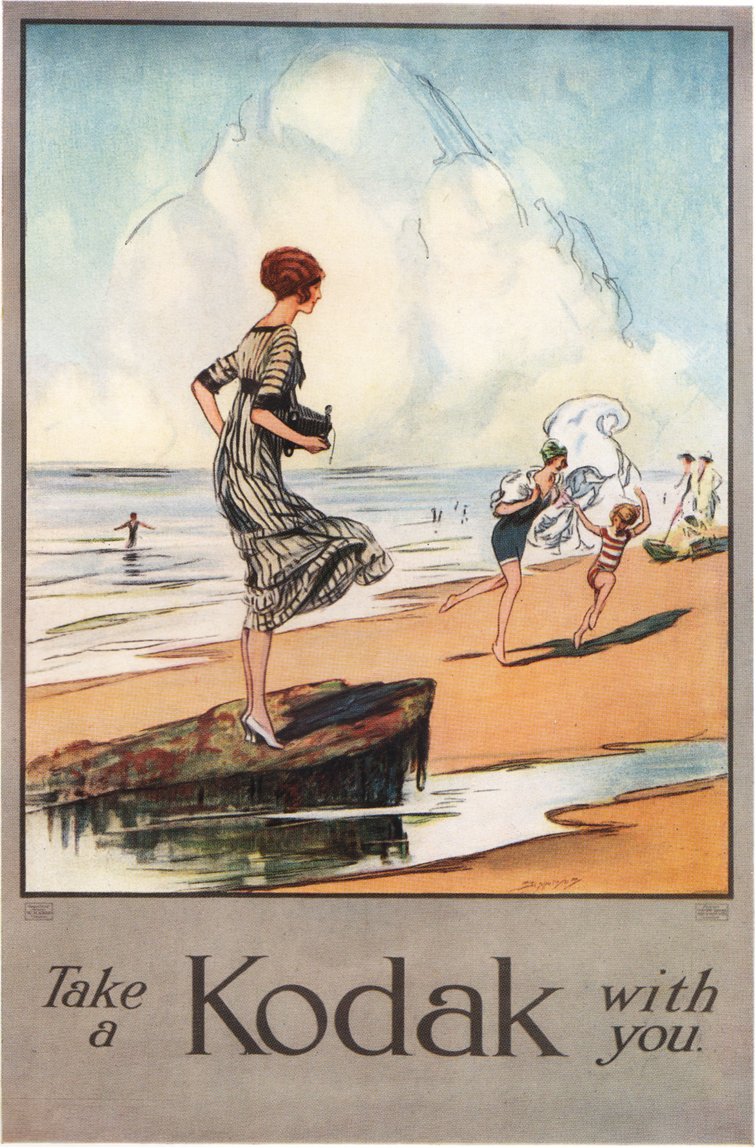 Reproduction of a poster for Kodak by Claude A. Shepperson.